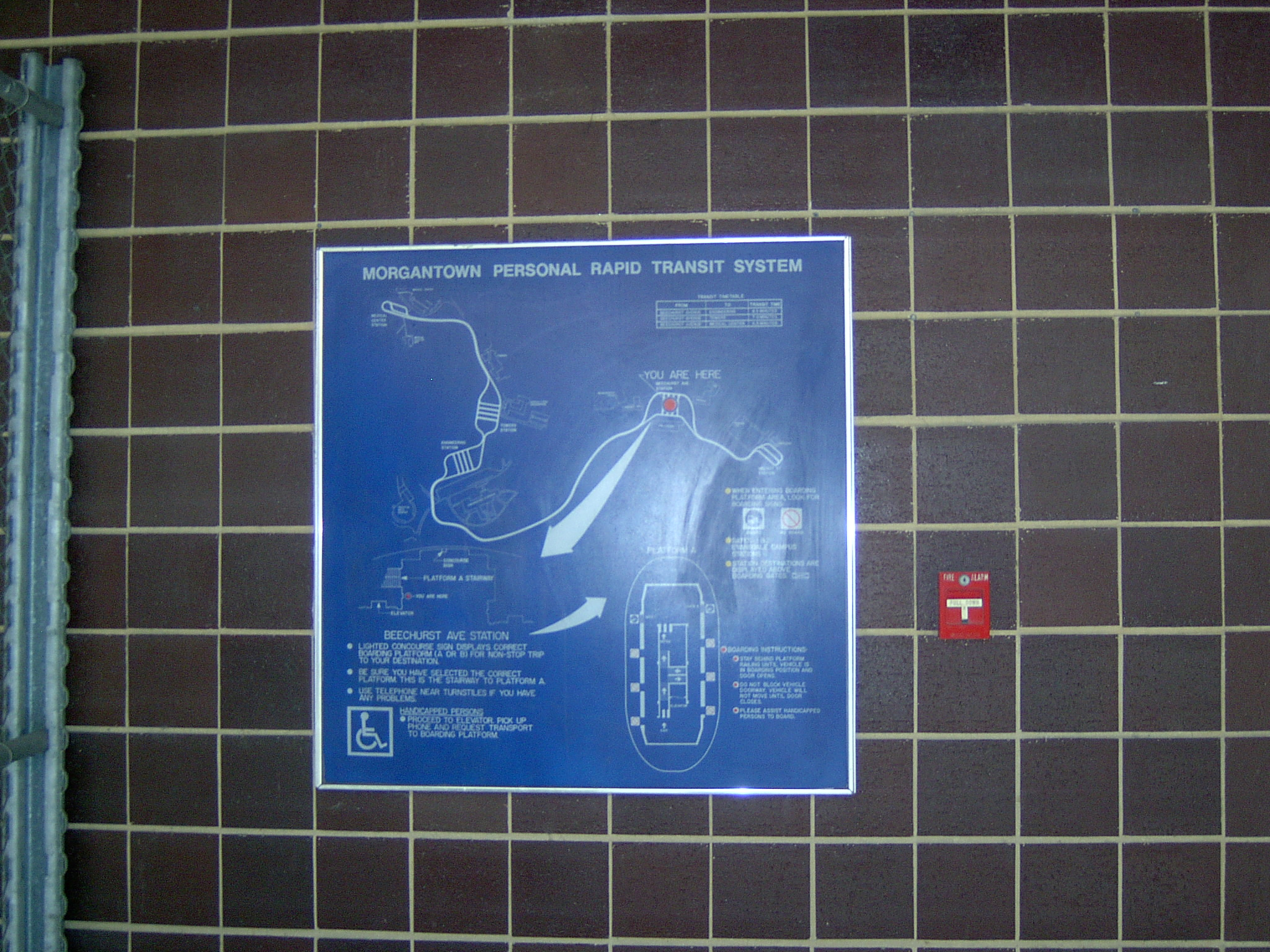 Morgantown PRT system map.